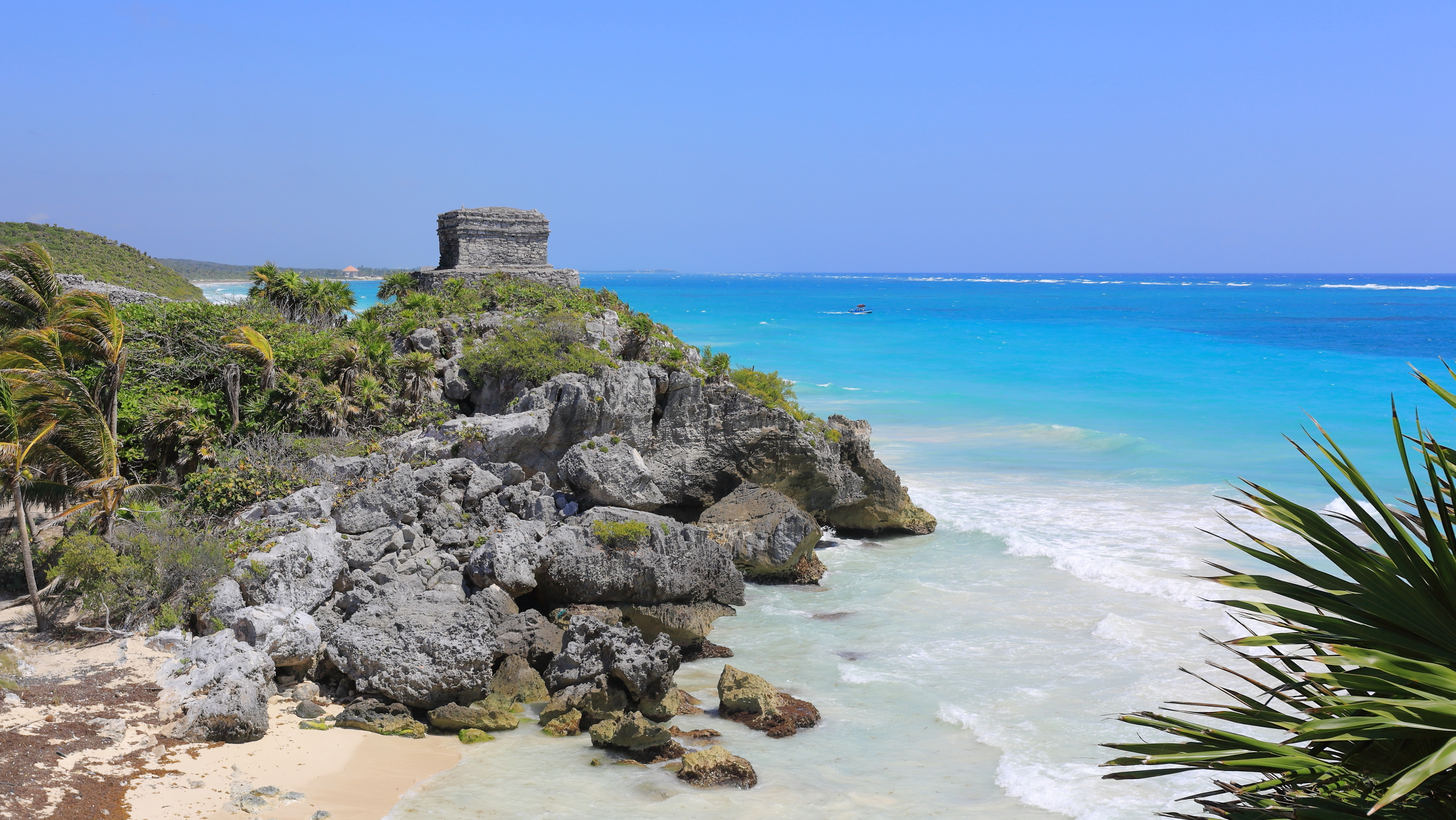 Tulum - God of the Winds Temple as seen from the south, March 2016